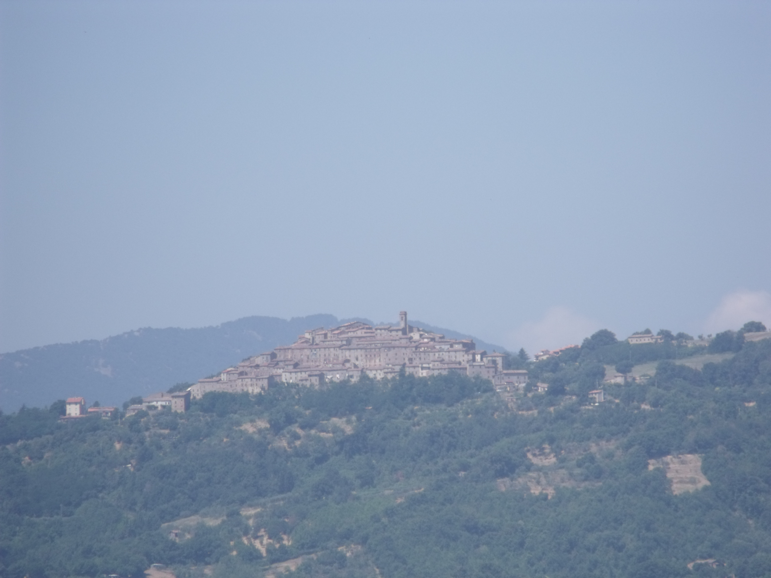 Chiusdino, Province of Siena, Tuscany, Italy